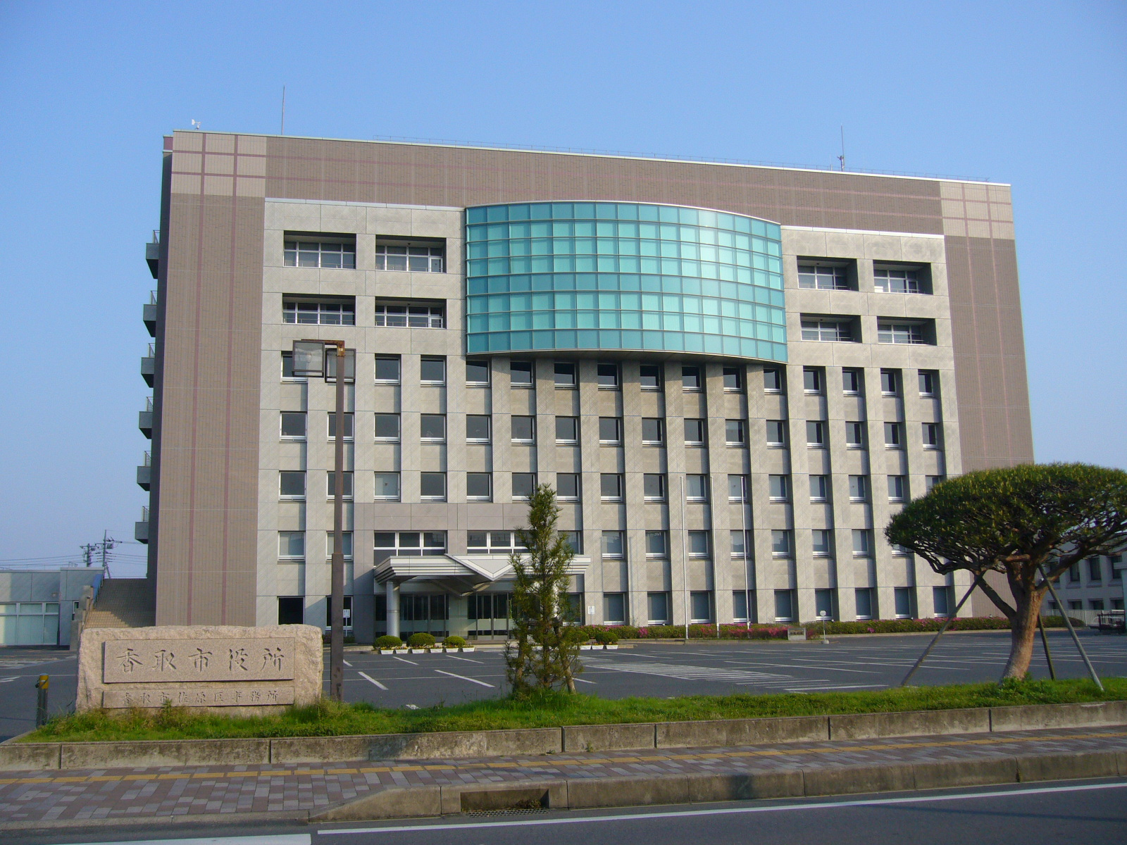 katori city office,katori-city,japan